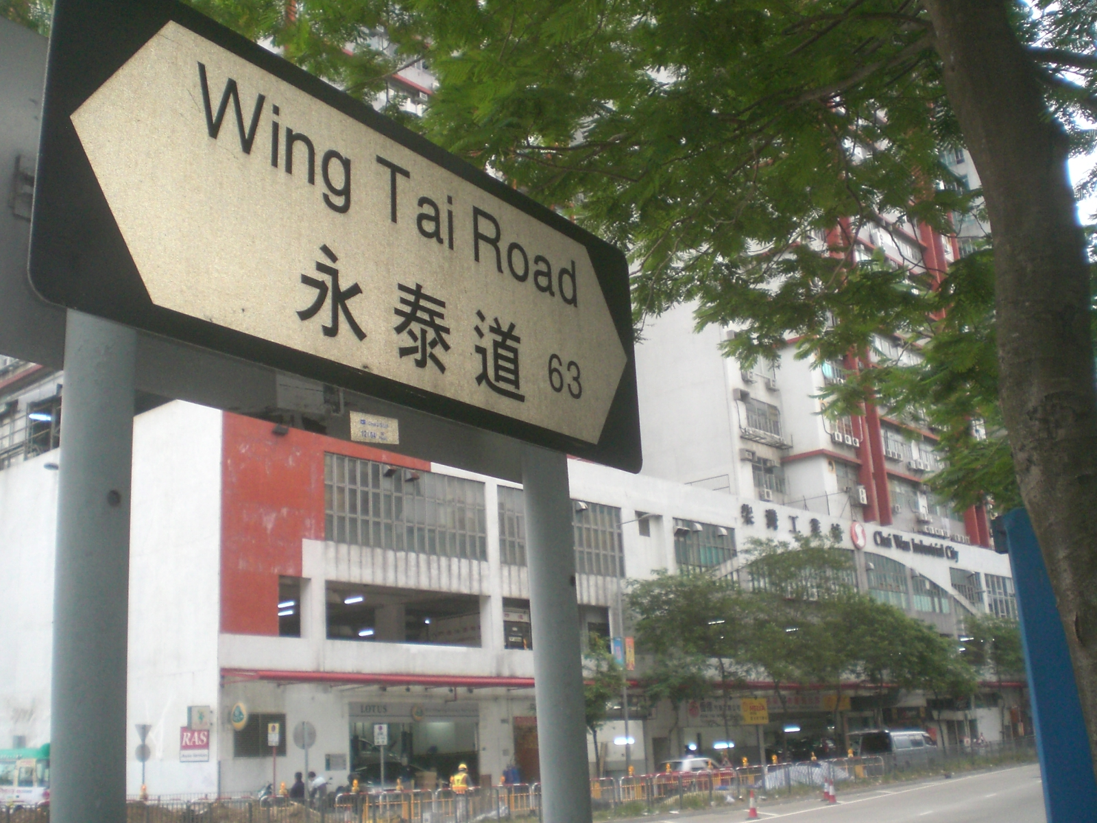 柴灣 永泰道